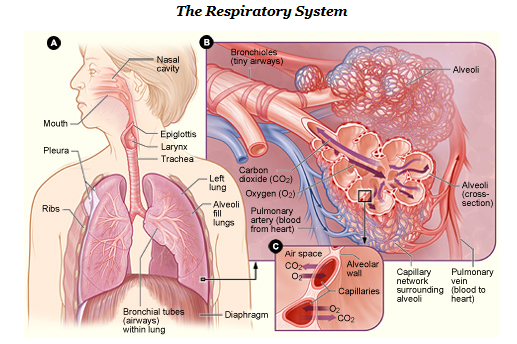 Diagram of the human respiratory system.